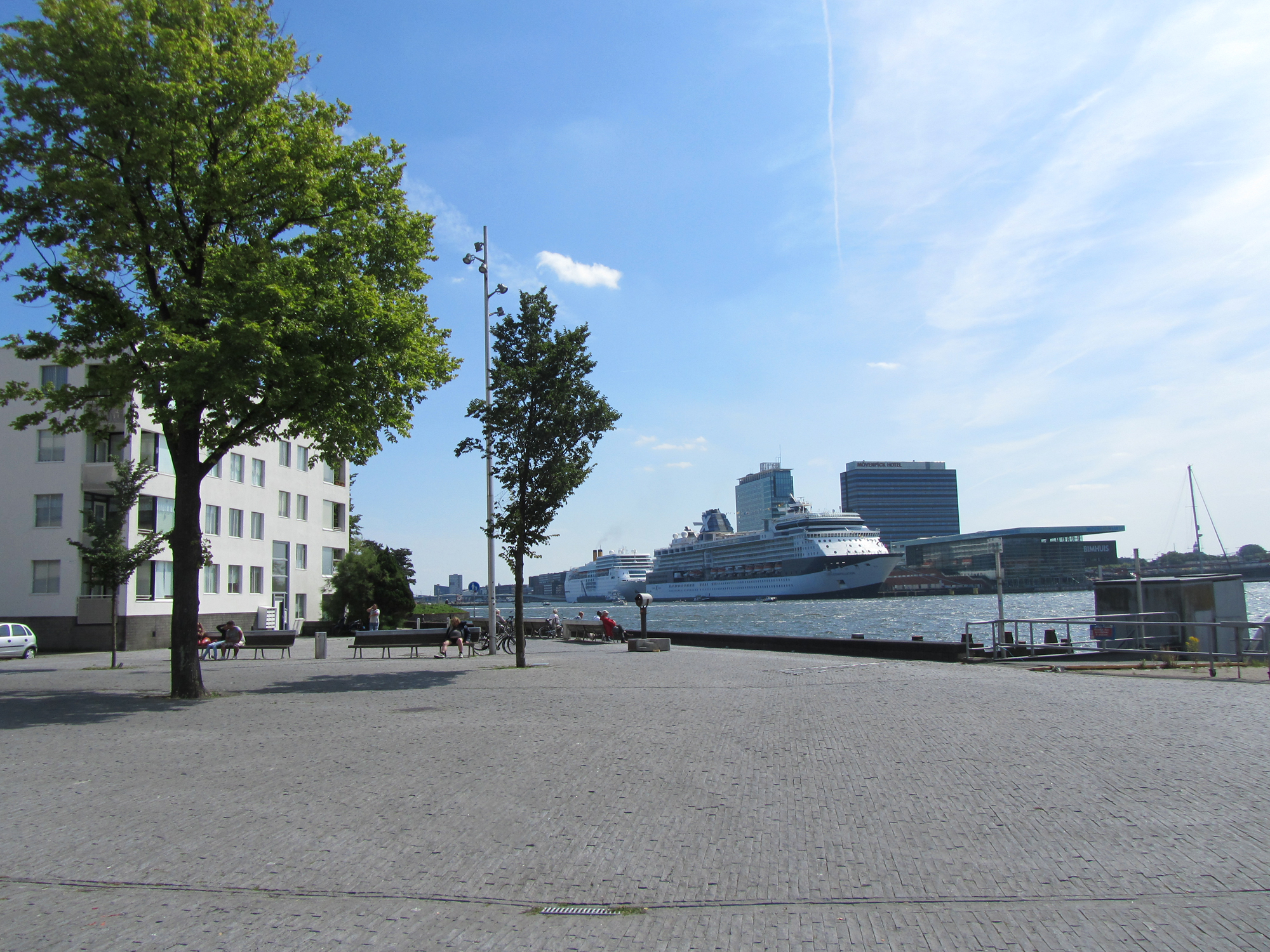 Pontplein/IJplein, Amsterdam-Noord. On the left is one of the apartment buildings designed by Rem Koolhaas. Across the IJ bay is the Muziekgebouw concert hall and Passenger Terminal Amsterdam, where the cruise ships Costa NeoRomantica (left) and Celebrity Constellation are moored